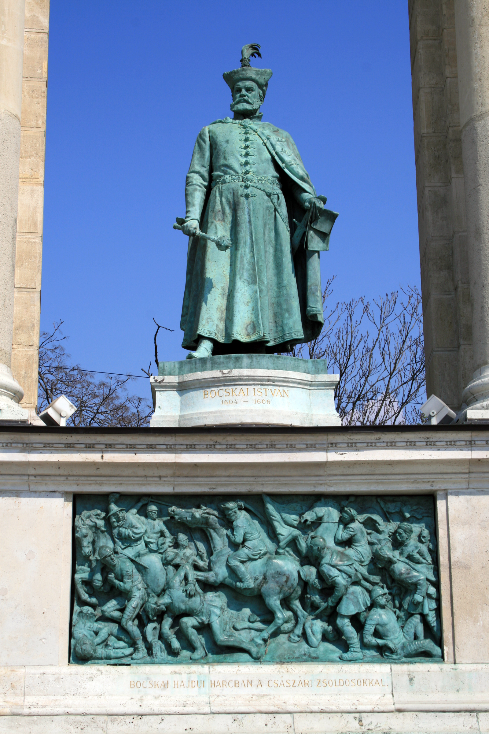 Statue of Stephen Bocskay or Bocskai István, Millenium Monument on Heroes' square, Budapest, Budapest, Hungary